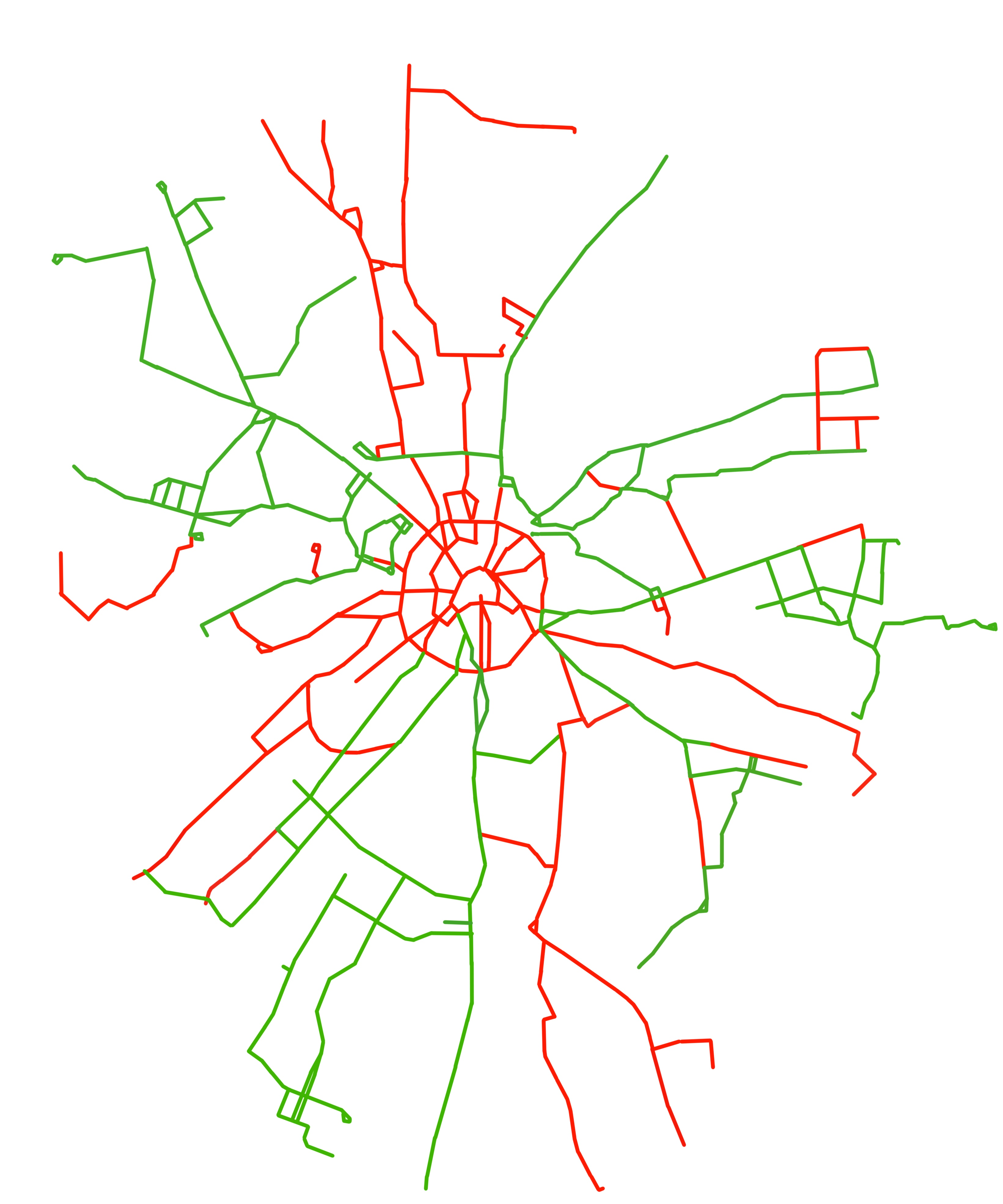 Trolleybus map